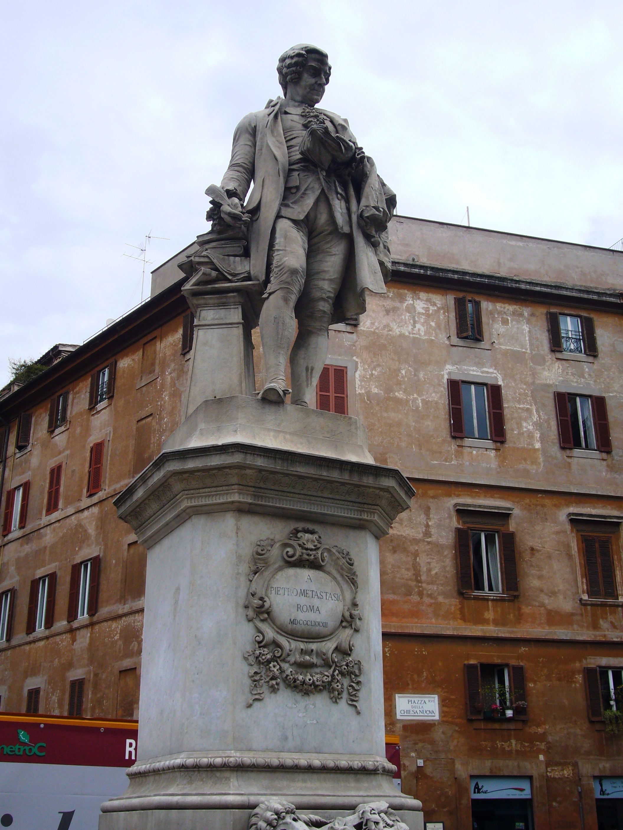 The monument )circa 1900) to Pietro Metastasio, sculpted by Emilio Gallori (1846-1924), in "Piazza della Chiesa Nuova" square in Rome, Italy.